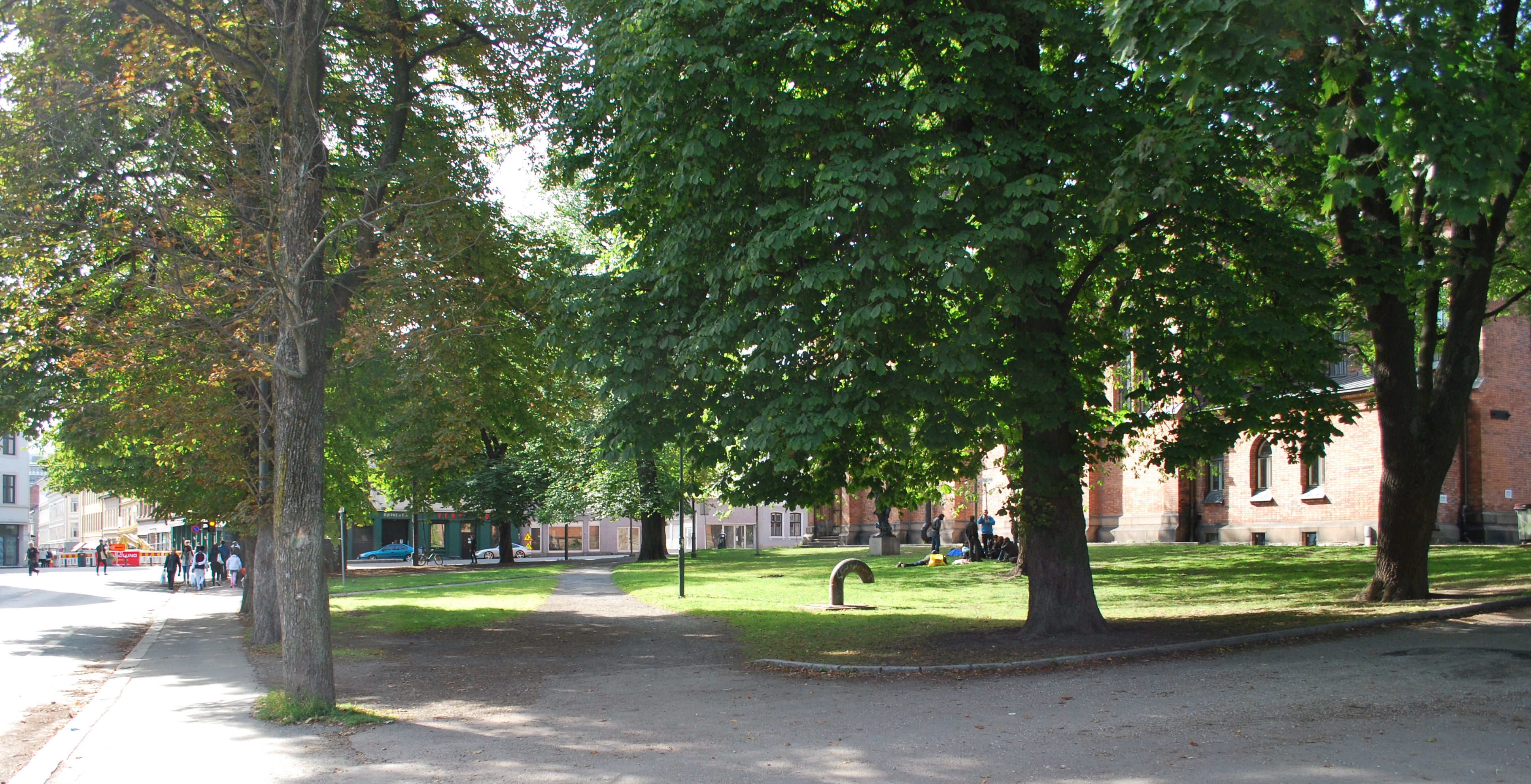 Ingrid Bjerkås plass (square), close to Jakob kirke (church) and Torggata, Hausmannsområdet, Oslo